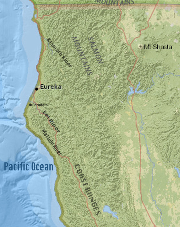 A map of Northern California from the United States Geological Survey Earthquakes Hazard Program, showing the towns of Eureka and Ferndale, three local rivers, United States road routes, mountain ranges and Mount Shasta.